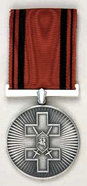 Order of Cross of Vytis, Lithuania